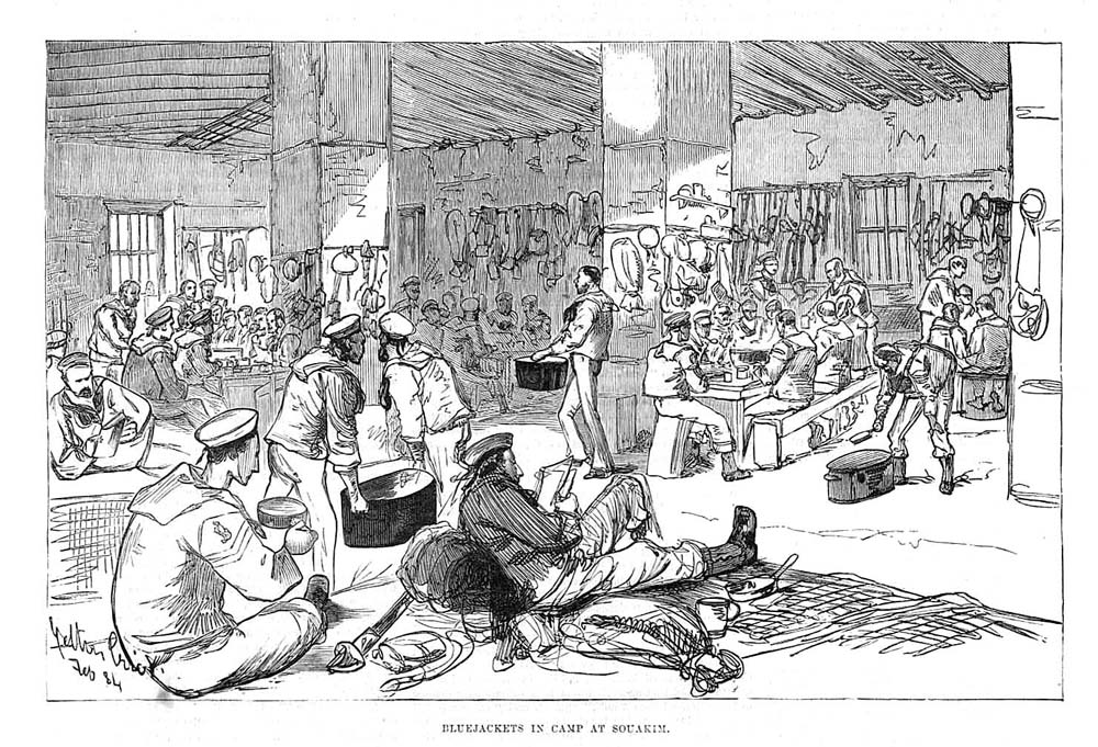 Bluejackets in Camp at Suakin - Antique Print 1884